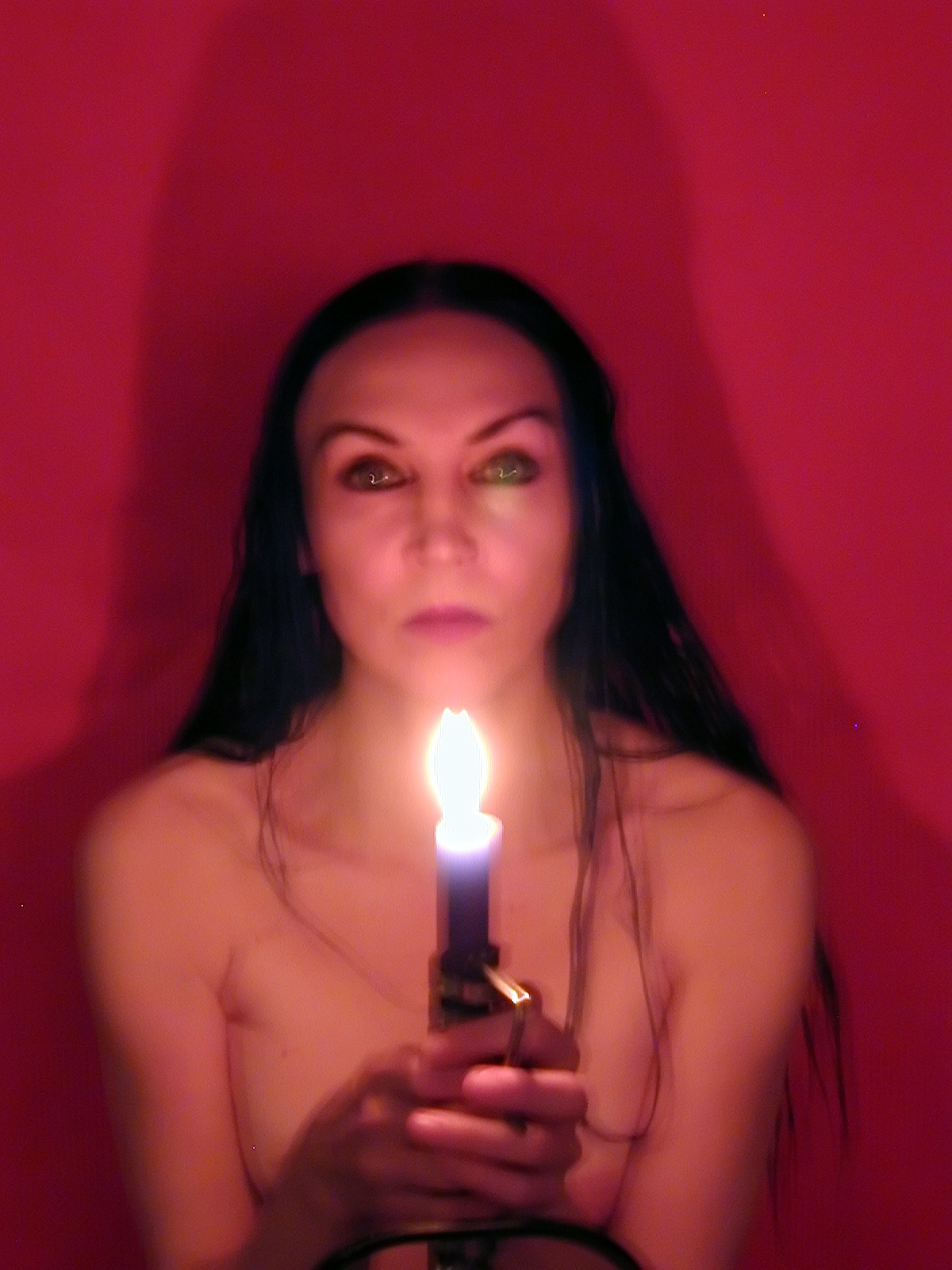 Promo Photo, Jarboe (owner) sent to me for posting at Wikipedia.